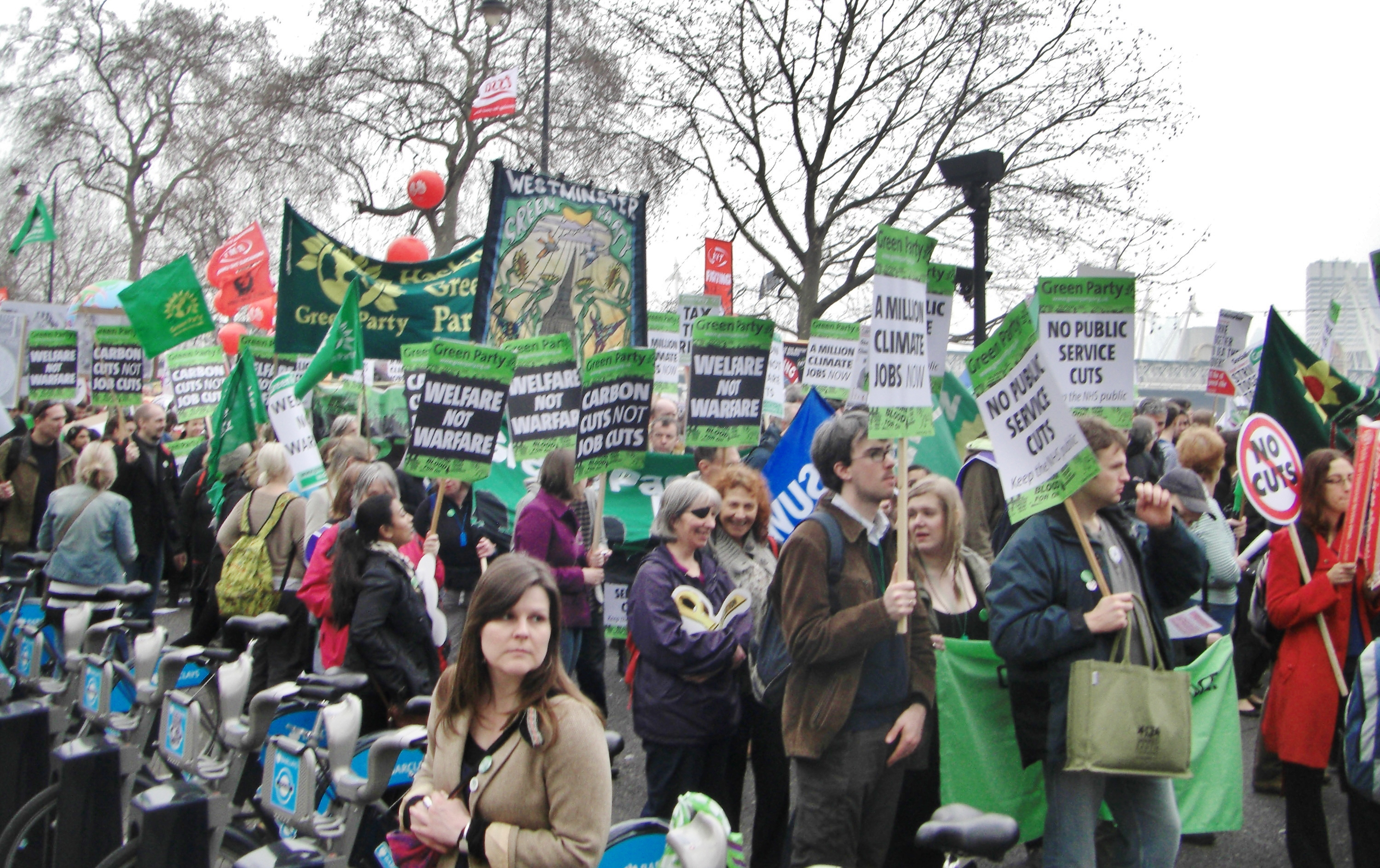 Members of the Green Party taking part in the March for the Alternative against government cuts to public spending in the UK.